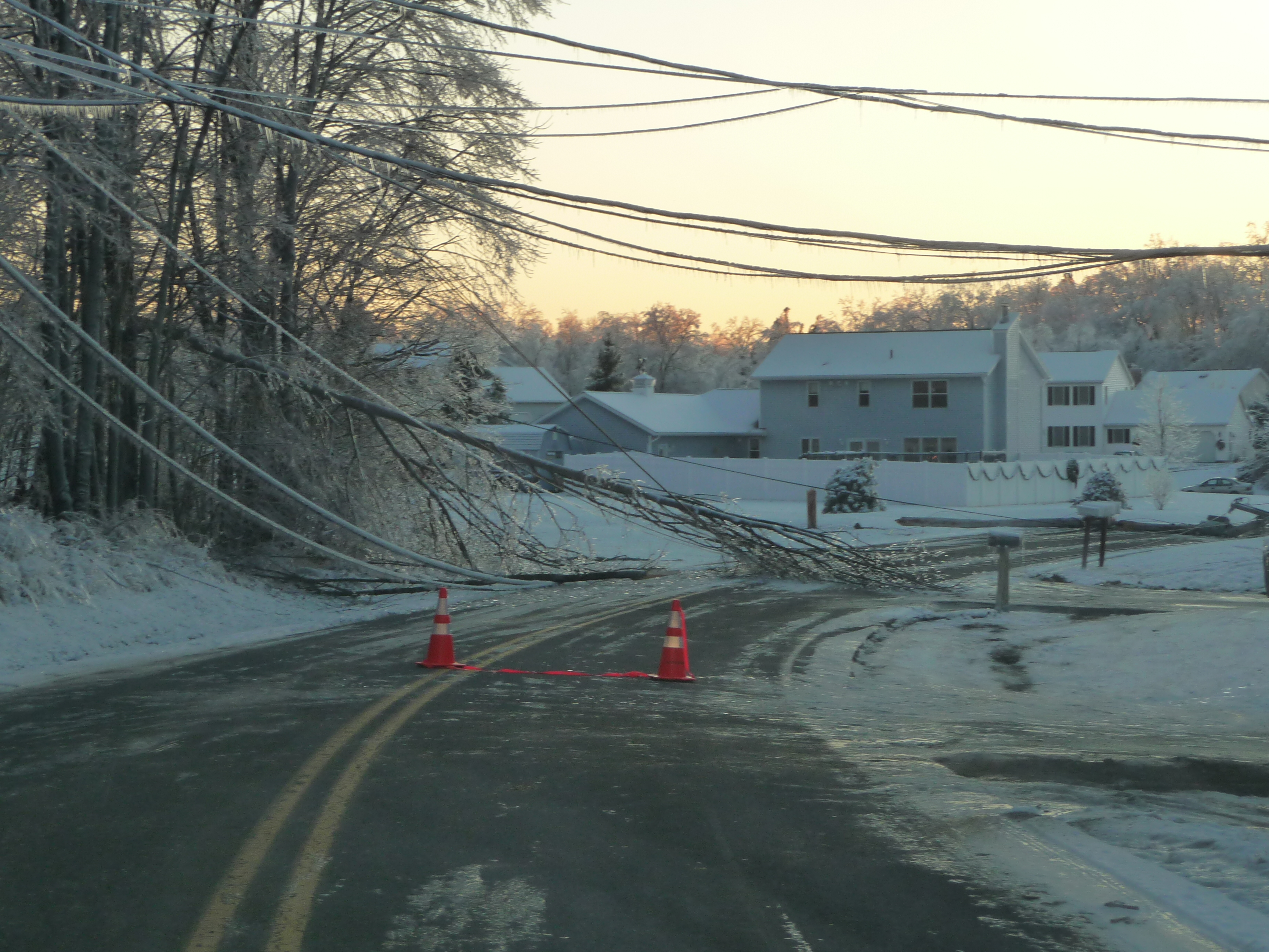 Fallen trees and wires block a road in North Greenbush, New York during the December 2008 ice storm of New England and Upstate New York